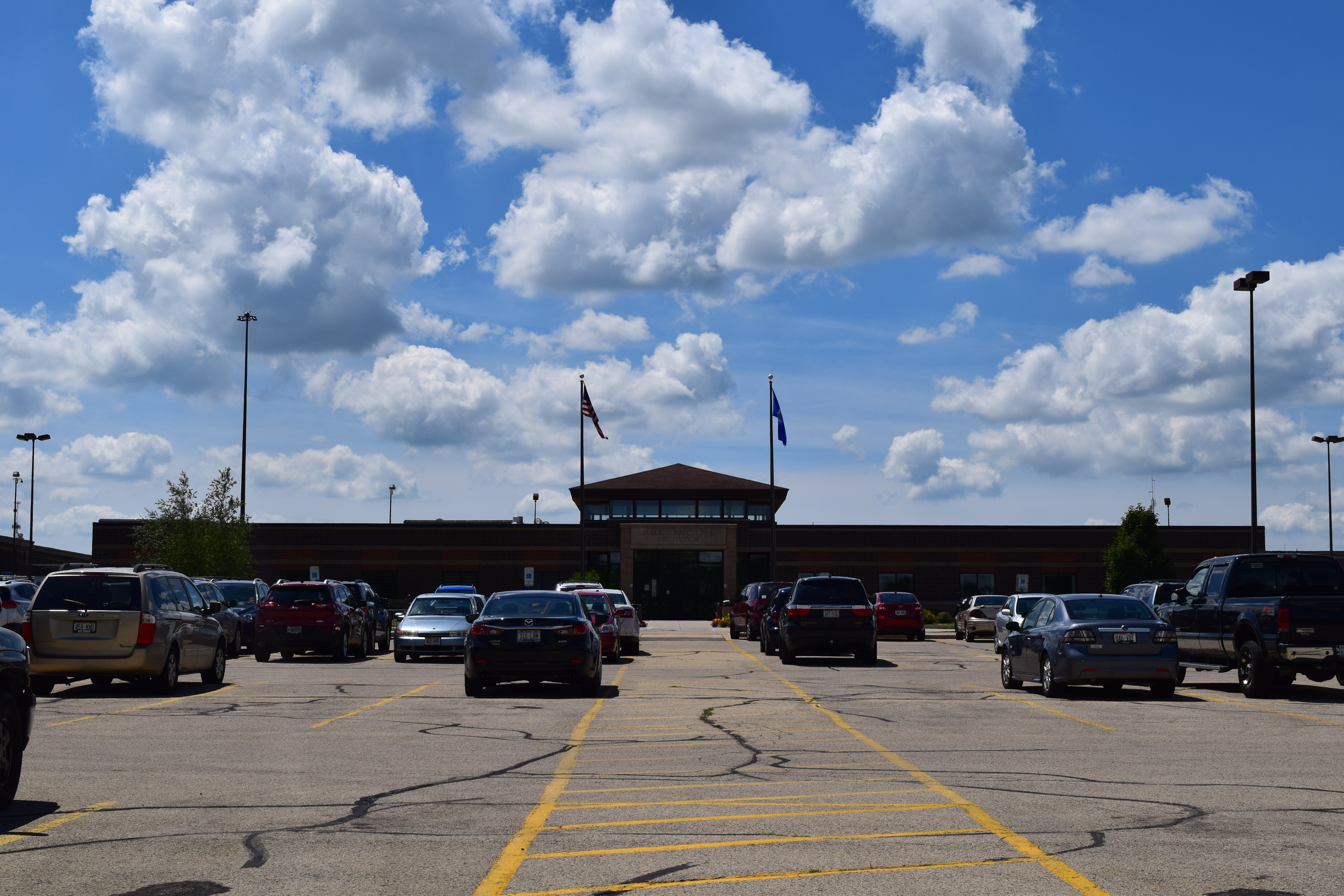 The entrance to the Dodge Correctional Institution in Waupun, Wisconsin. The complex was previously known as the Central State Hospital for the Criminally Insane.